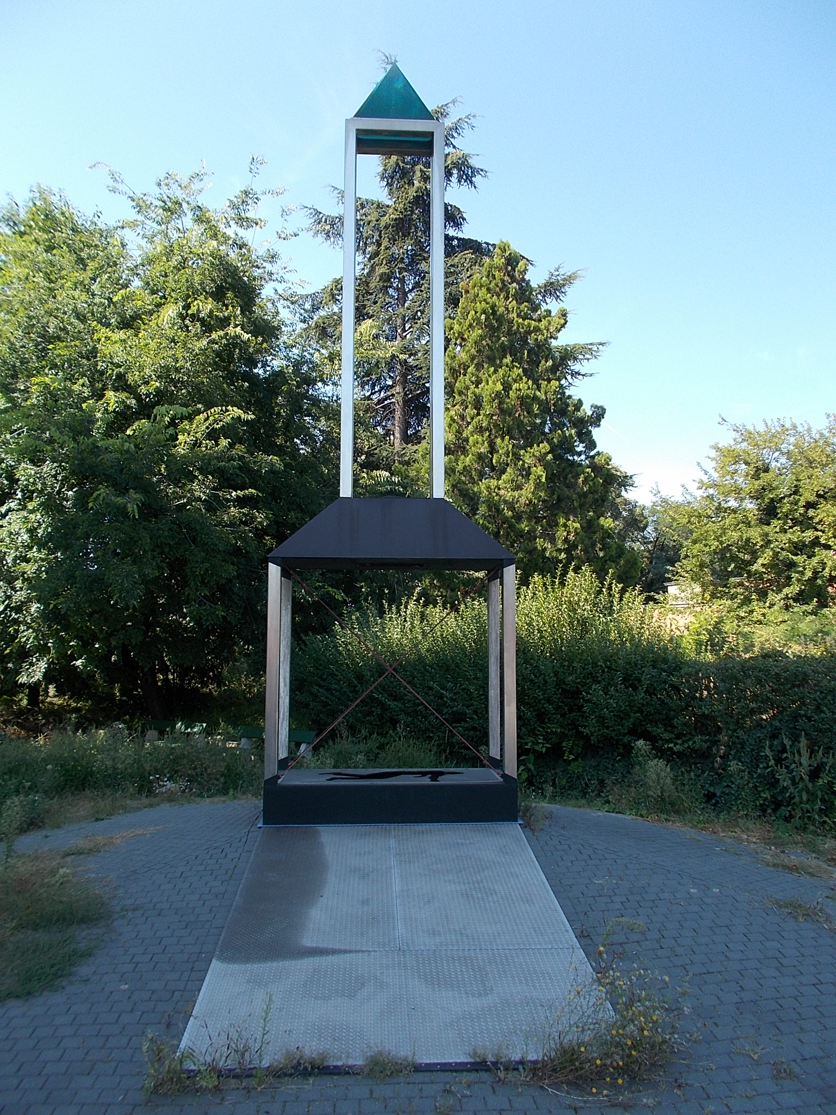 Memorial to peples who injured and deceased by workplace accident- , Budapest District XXI., Budapest.